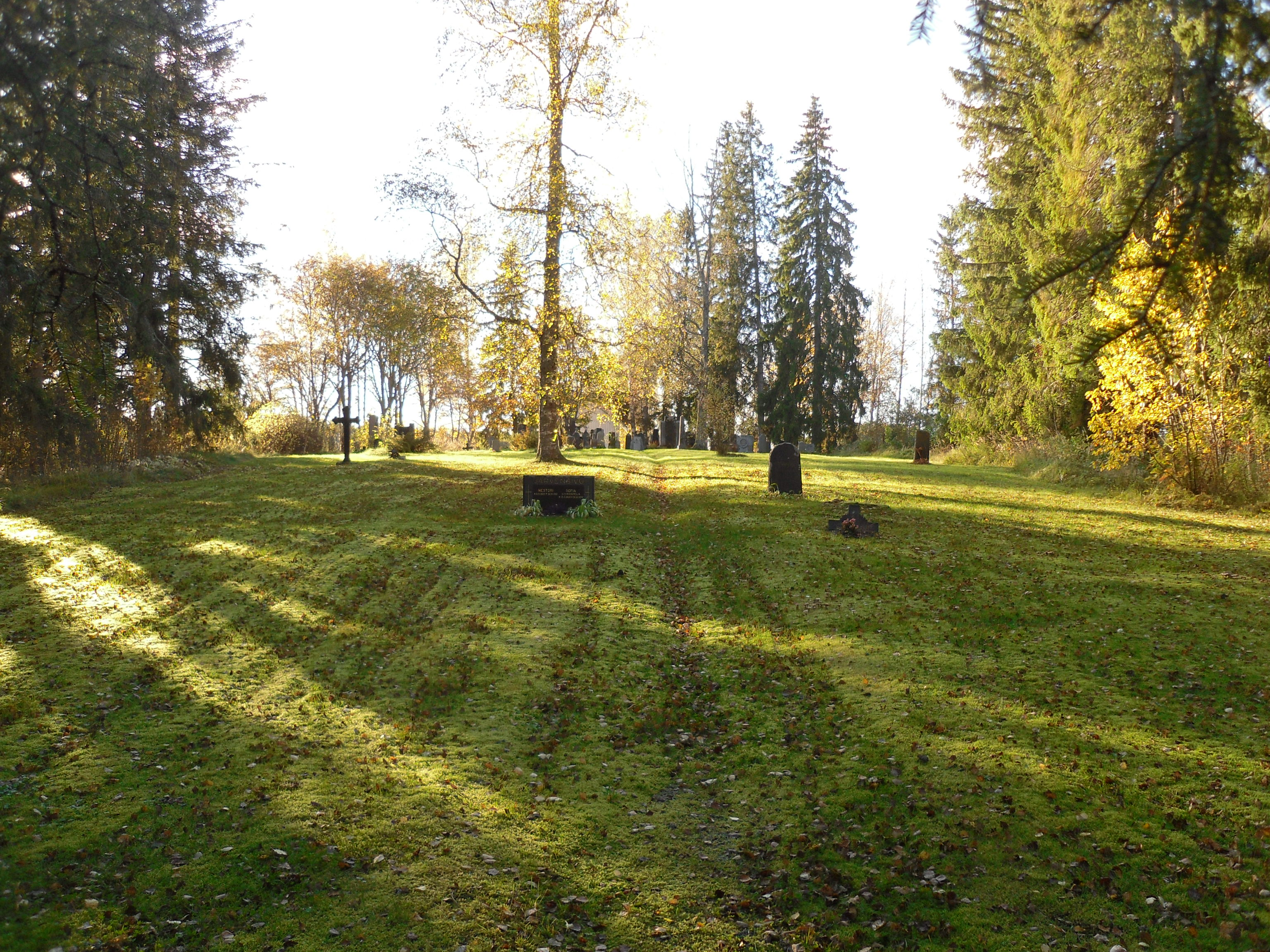 Old cemetery and old church place in Suodenniemi village, Sastamala town.